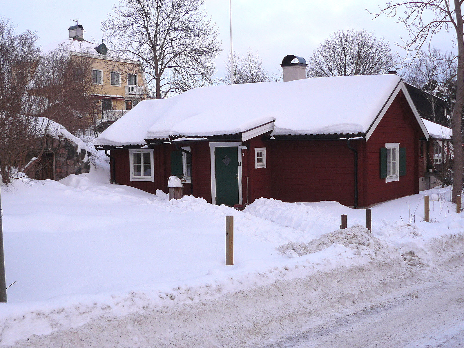 The reconstructed Igelboda crofter's dwelling, Saltsjöbaden, Sweden.